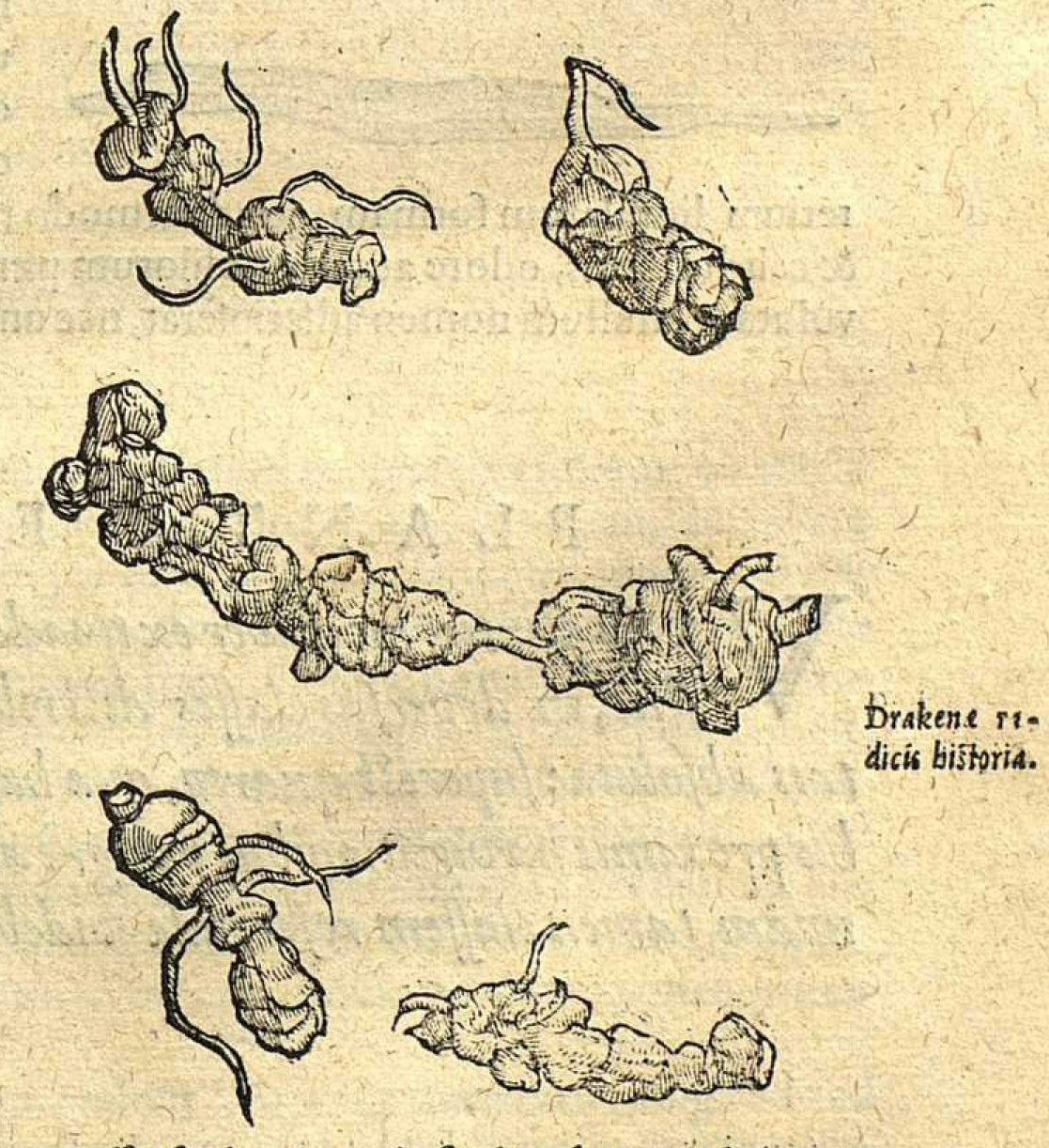 Illustration of Drakena radix by Carolus Clusius from Exoticorum libri decem 1605, page 311.